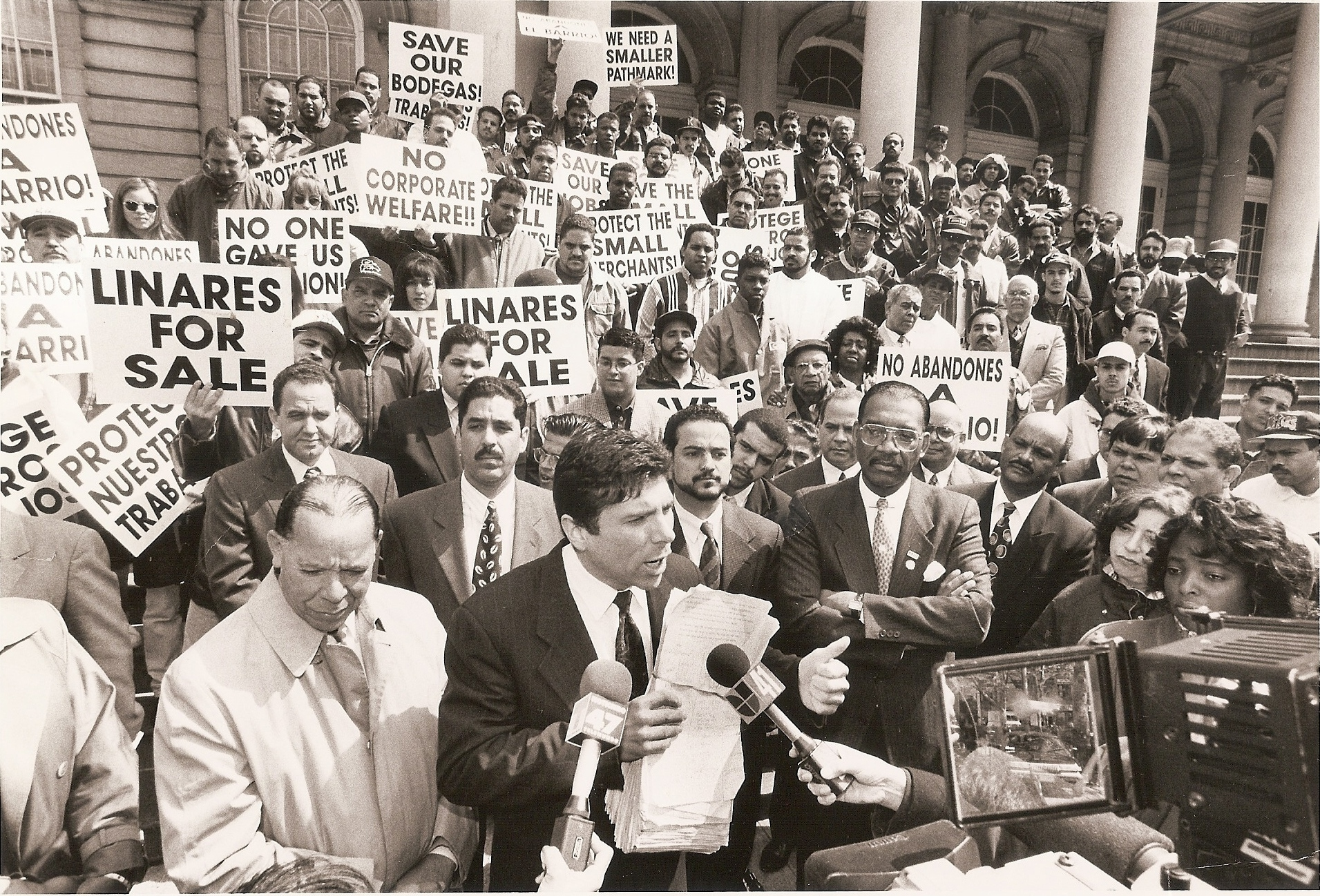 Denis Housing Rally Author = Nelson Denis Source = Nelson Denis.